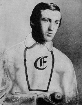 This is a scaled-down scan from the book Baseball in America, Robert Smith, Holt Rinehart Winston, 1961, p.10. The letter on his shirt front is an Olde English "E" for Excelsior.